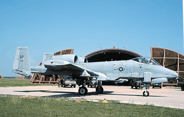 A-10A of the 81st Tactical Fighter Squadron, Spangdahlem Air Base, Germany.